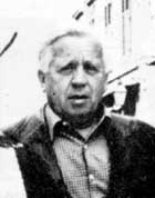 Photo of Branko Ćopić